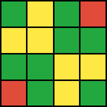 An example of a tile from the game Continuo.